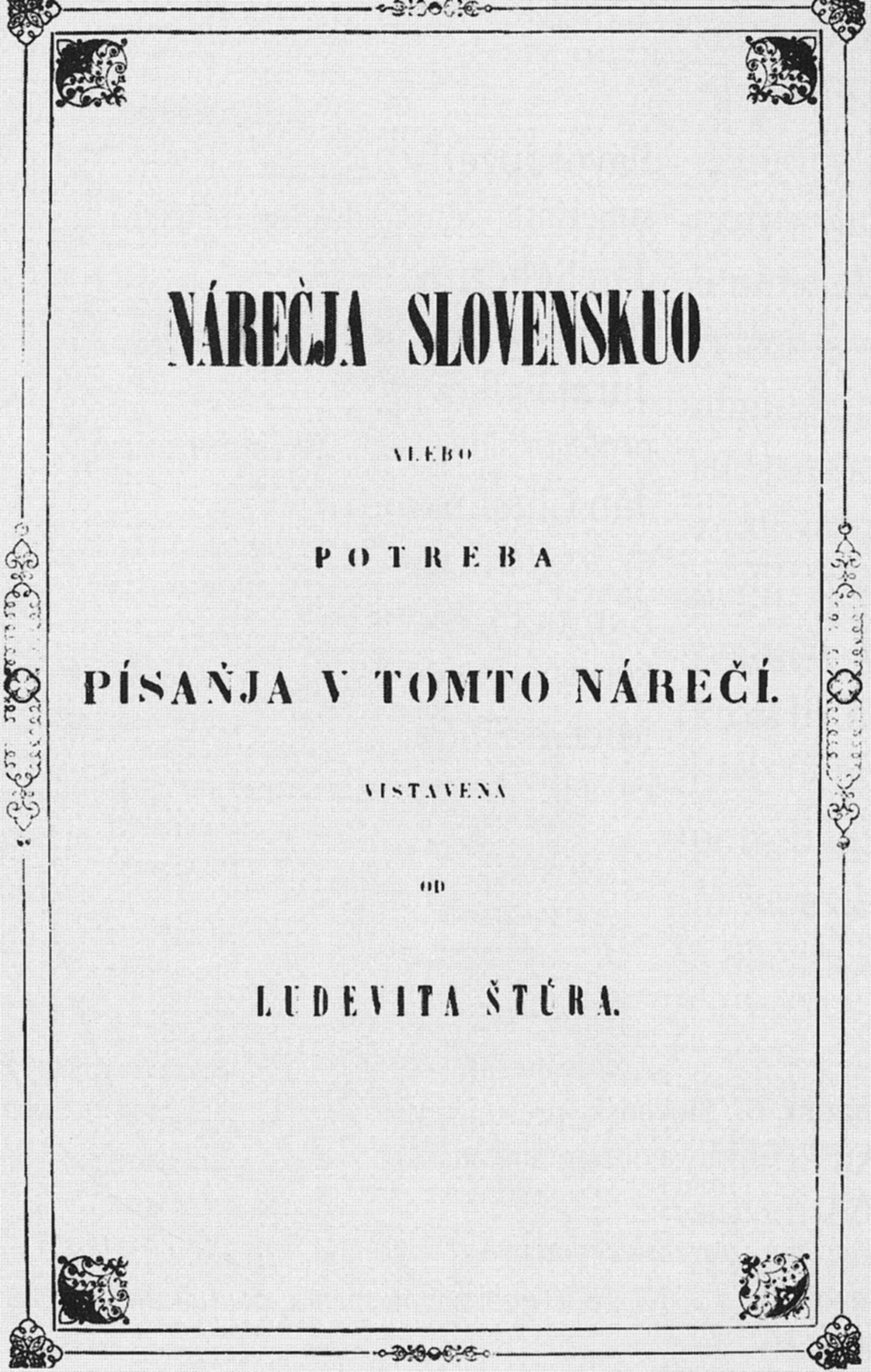 The book-jacket Ludovit Stur Nárečja Slovenskuo alebo potreba písaňja v tomto nárečí (1846)